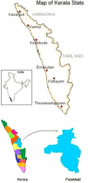 Wiki Palakkad